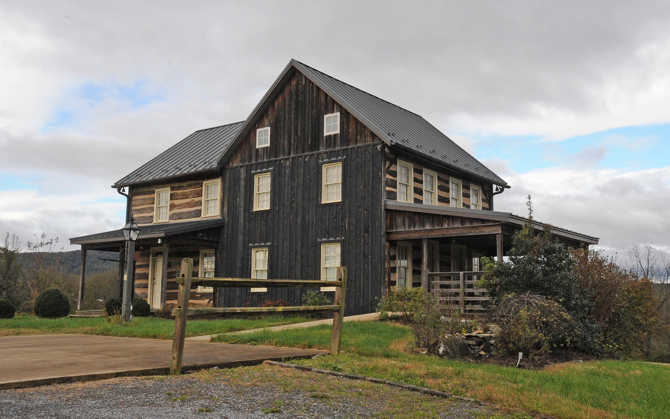 JOSEPH NEGLEY FARMSTEAD - 1836 TO 1850